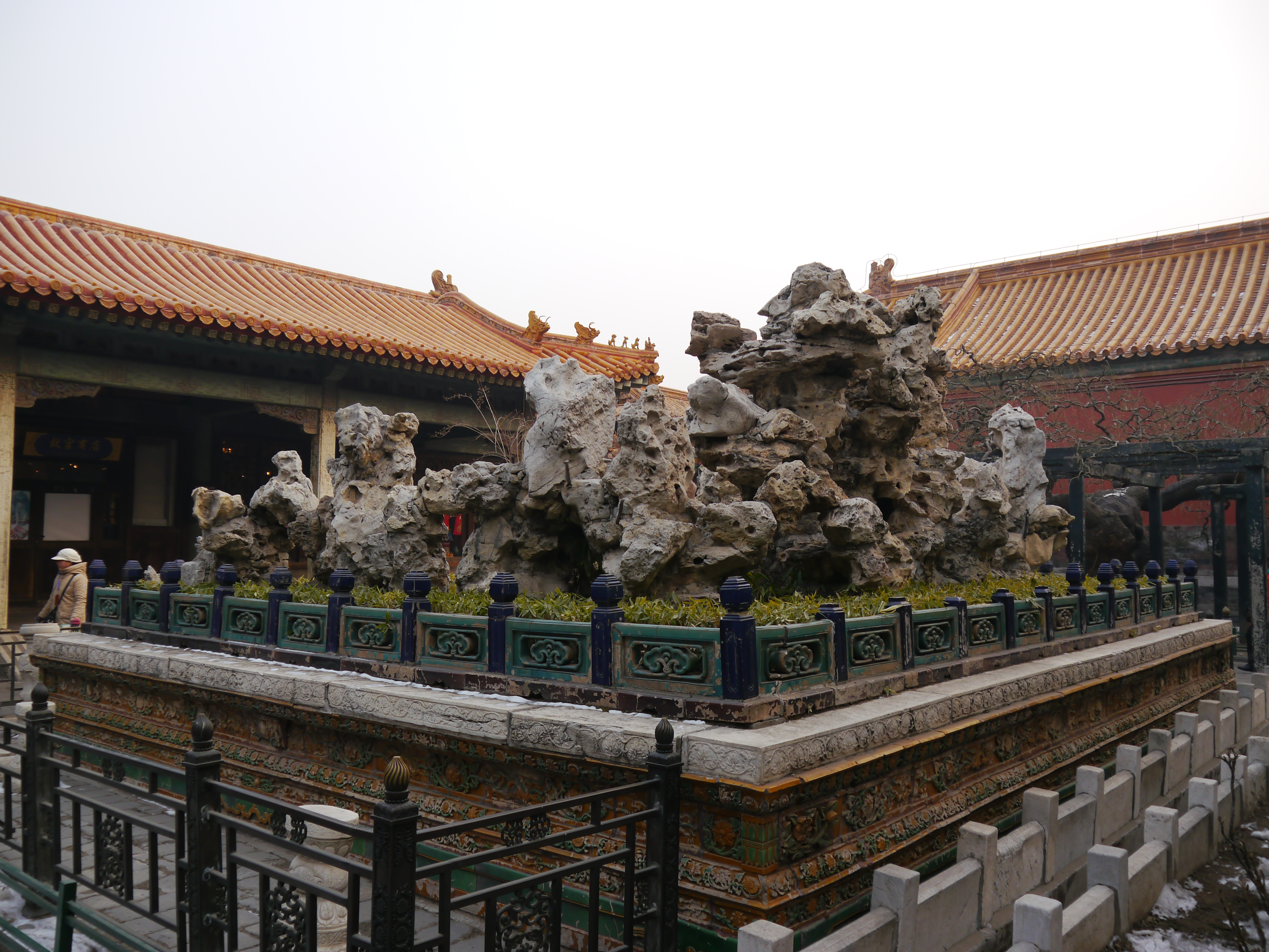 China, Beijing, Forbidden City.